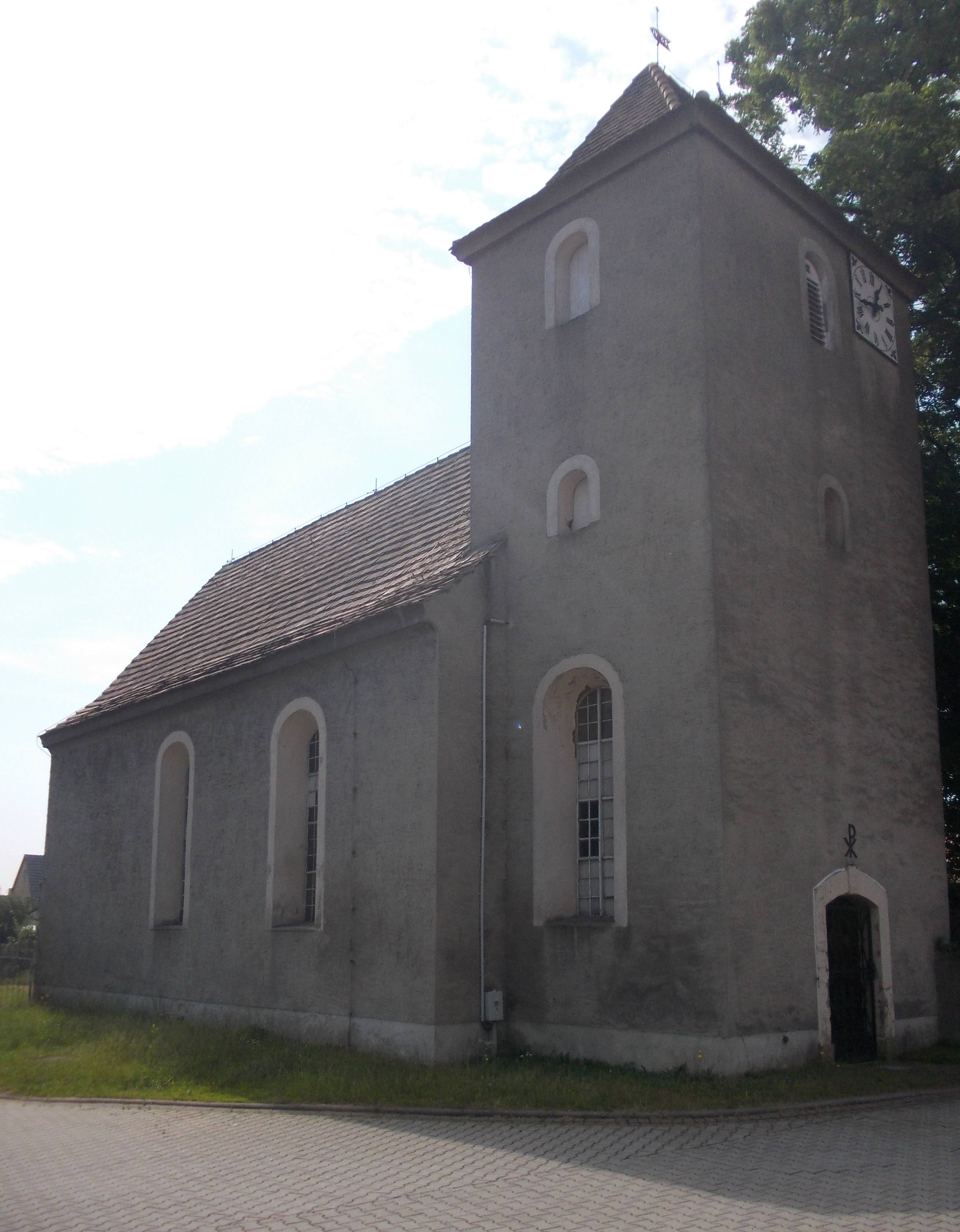 Strelln church (Mockrehna, Nordsachsen district, Saxony)